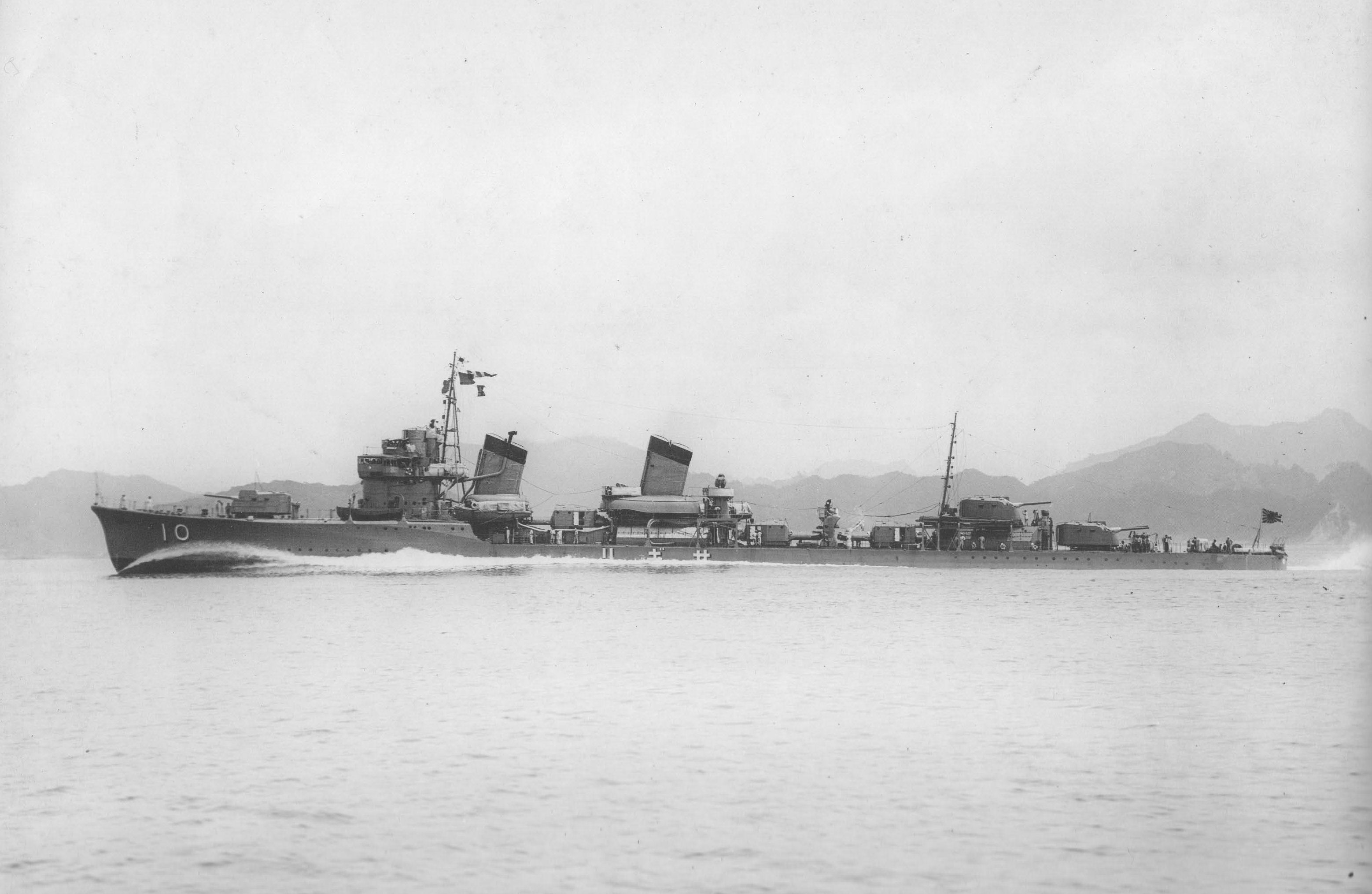 Imperial Japanese Navy destroyer Sagiri